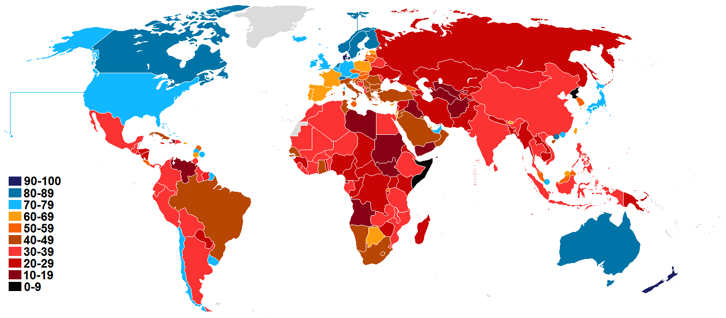 Corruption perception index 2014